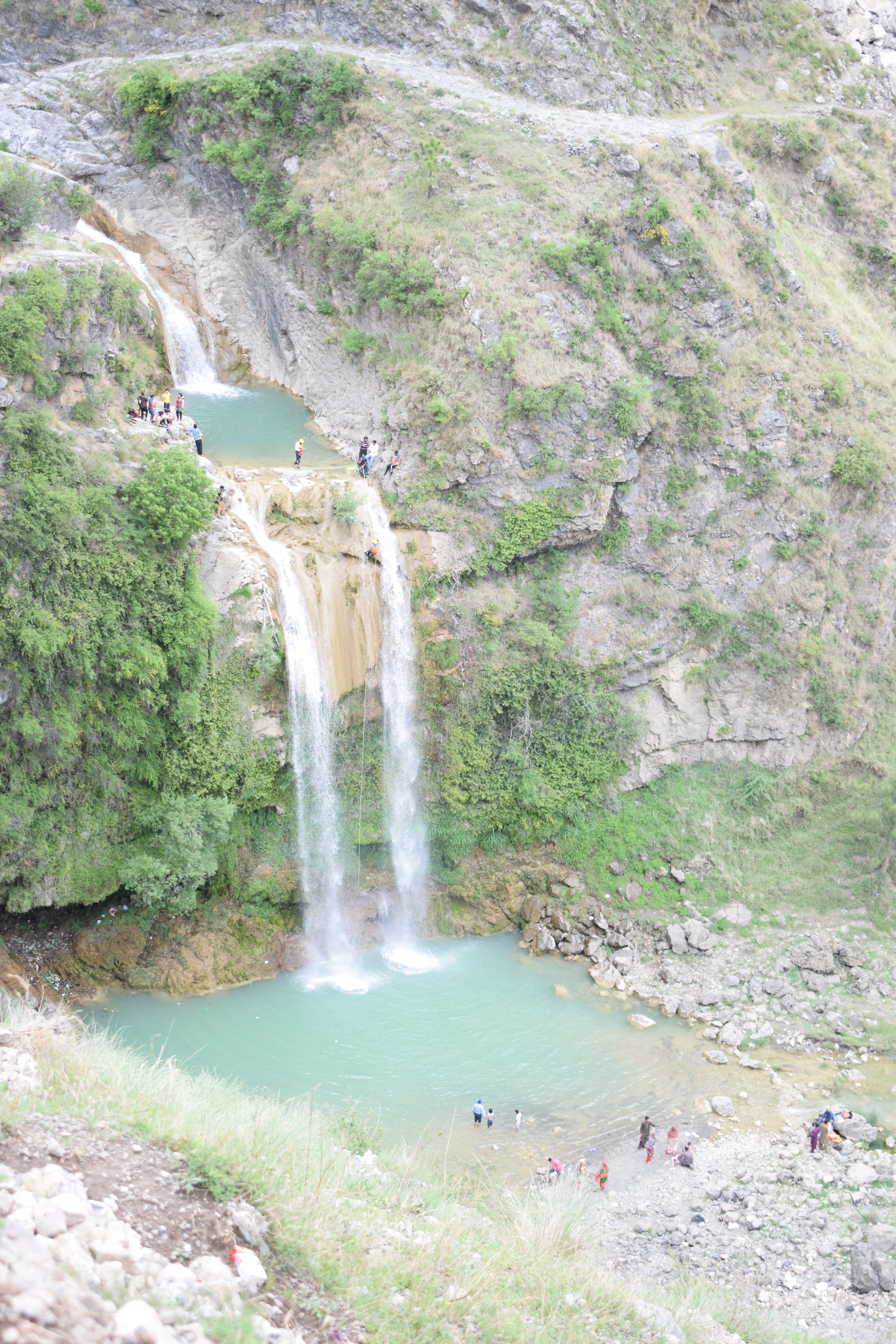 Waterfall in sajjikot abbotabad,KPK,Pakistan